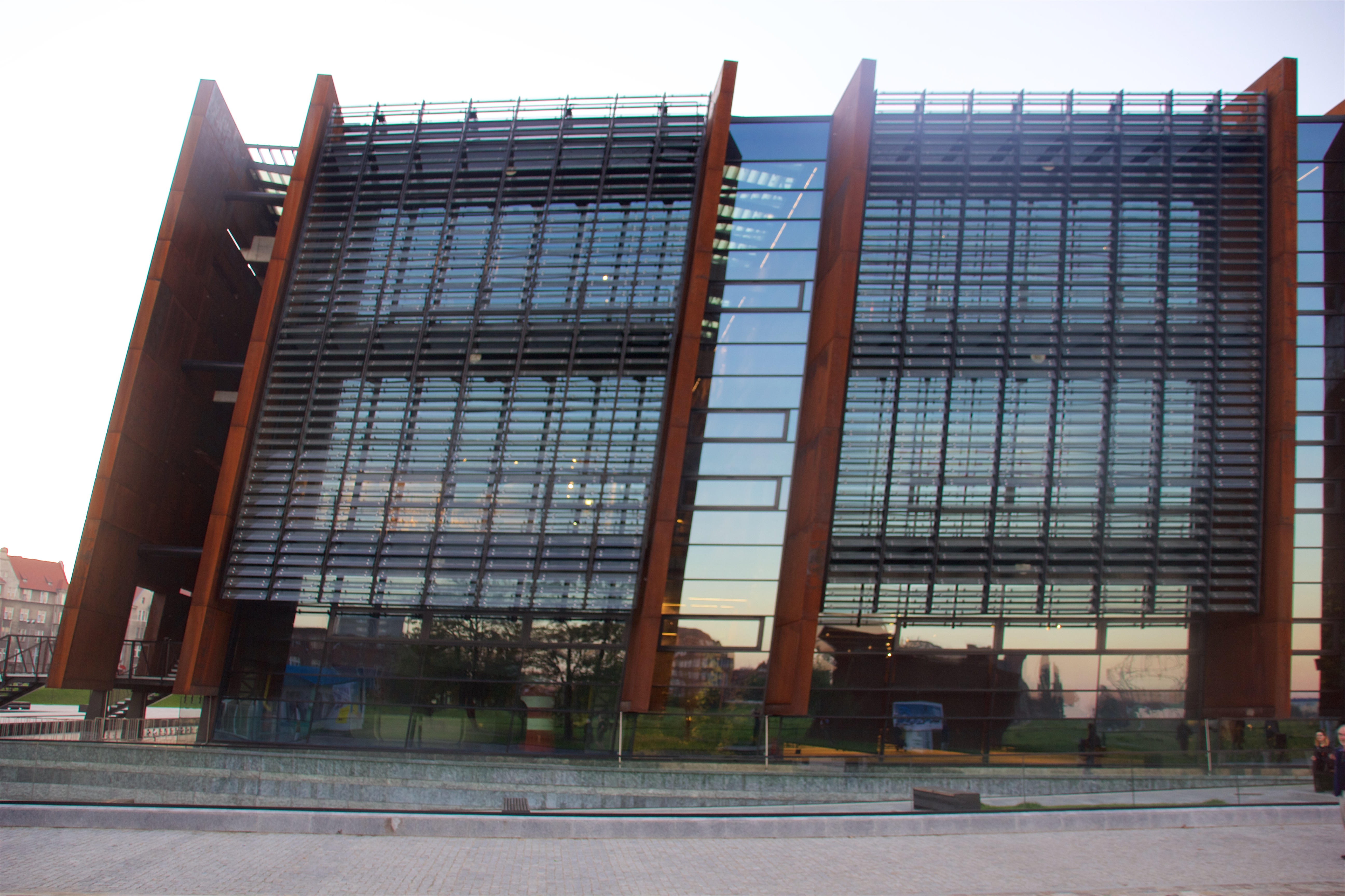 European Solidarity Centre, Gdańsk, Poland.